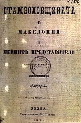 "Stefan Stambolov`s ideas in Macedonia and its representatives"